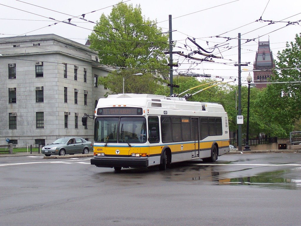 A Neoplan AN440LF trackless trolley #4111 exits the Harvard Tunnel on the 71 route